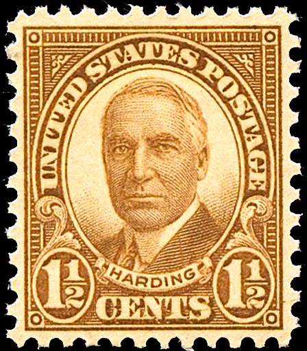 US Postage Stamp: Warren G. Harding, Issue of 1930, 1-1/2c